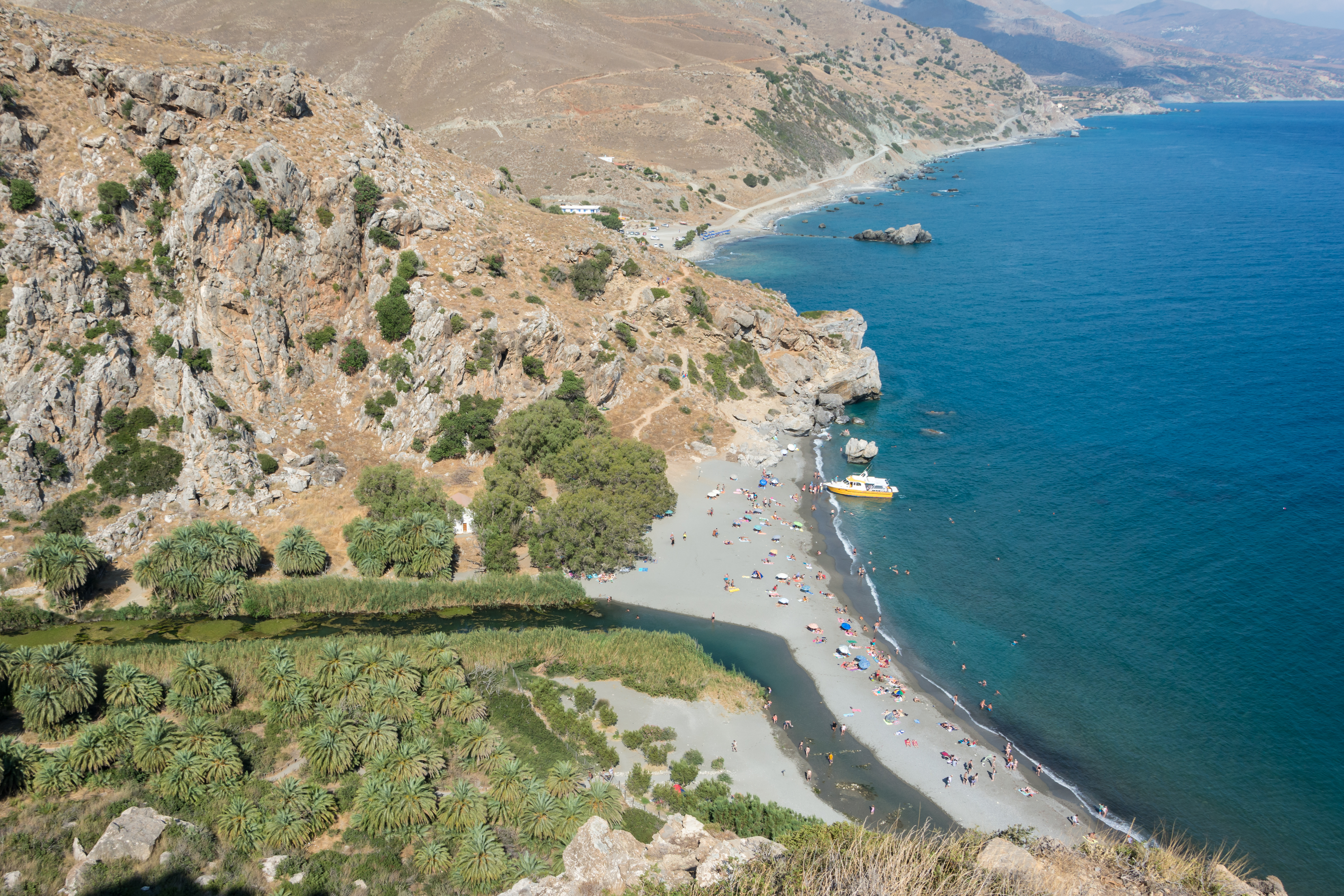 Palm beach of Preveli with the mouth of Megalopotamos river, Crete